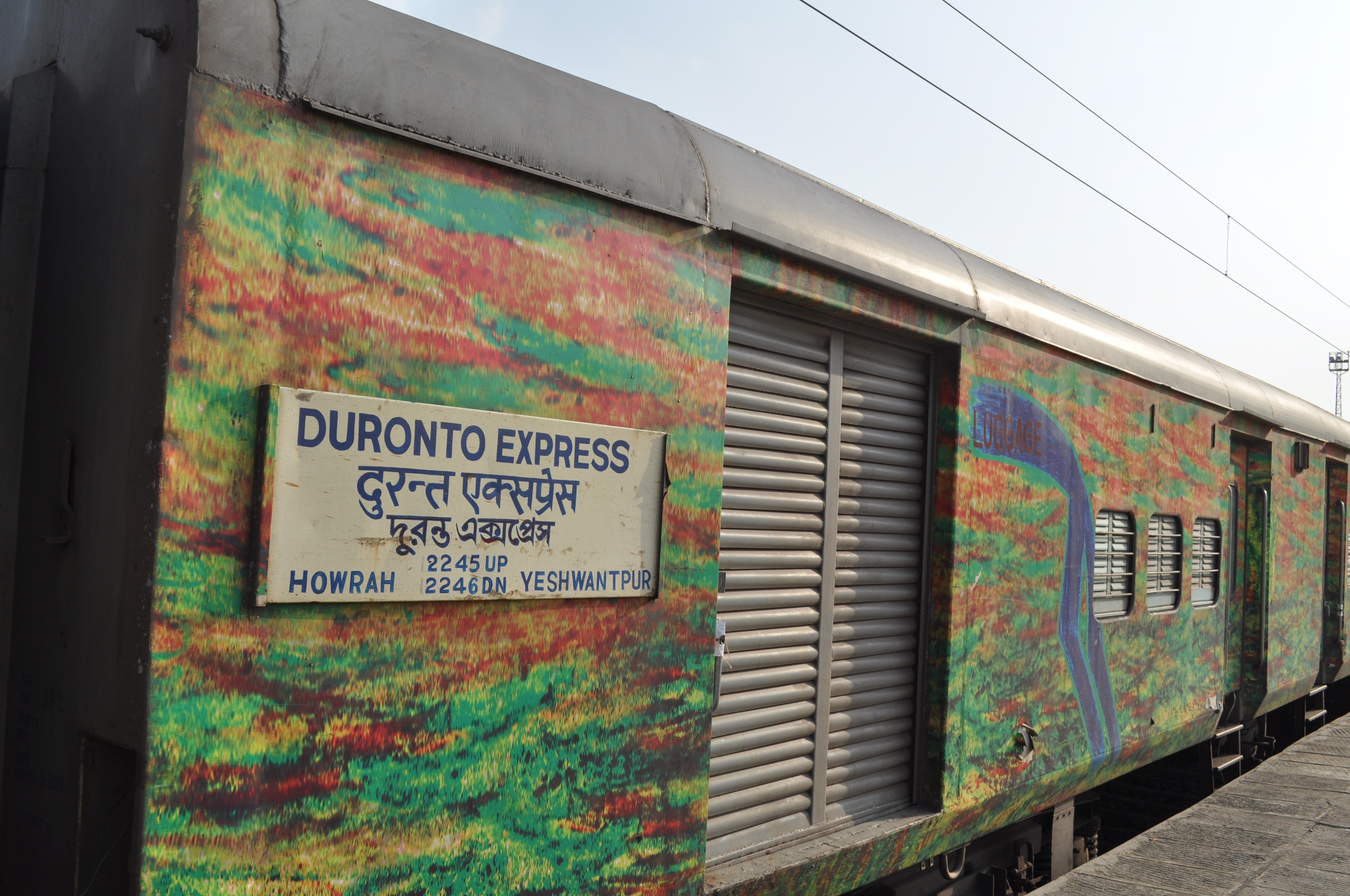 Duronto Express From Yeshwantpur, Bengaluru to Howrah, Kolkata